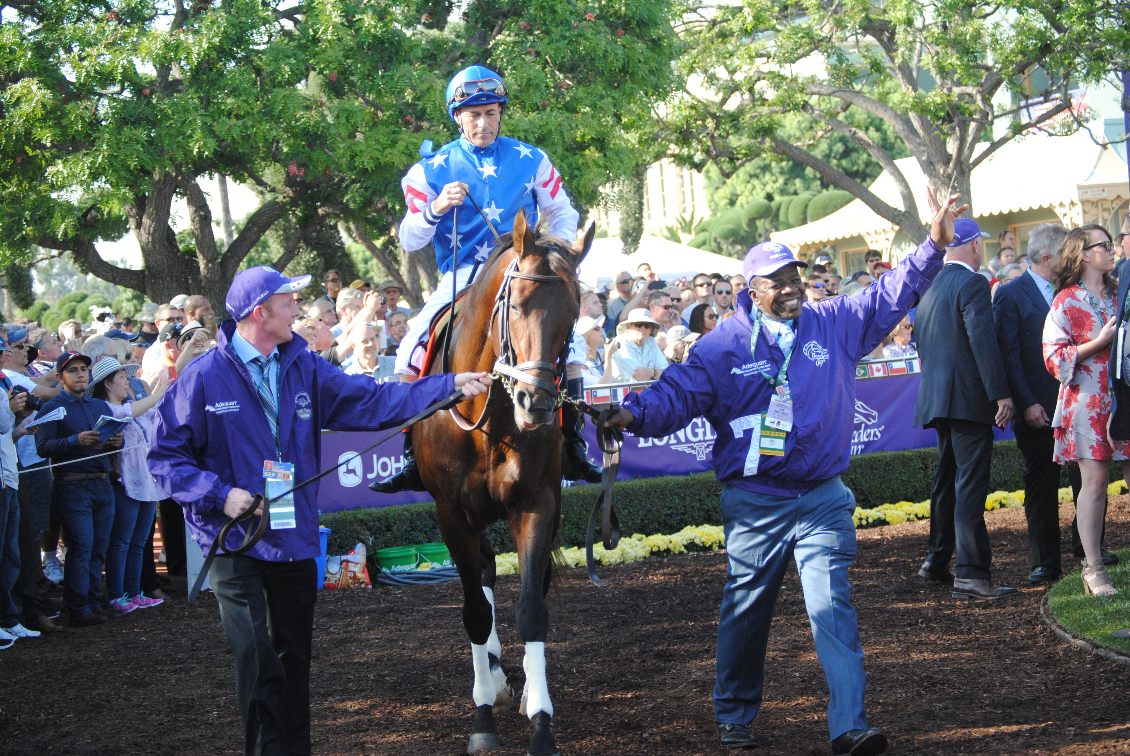 Runhappy, ridden by Gary Stevens, in the paddock for the 2016 Breeders' Cup Dirt Mile